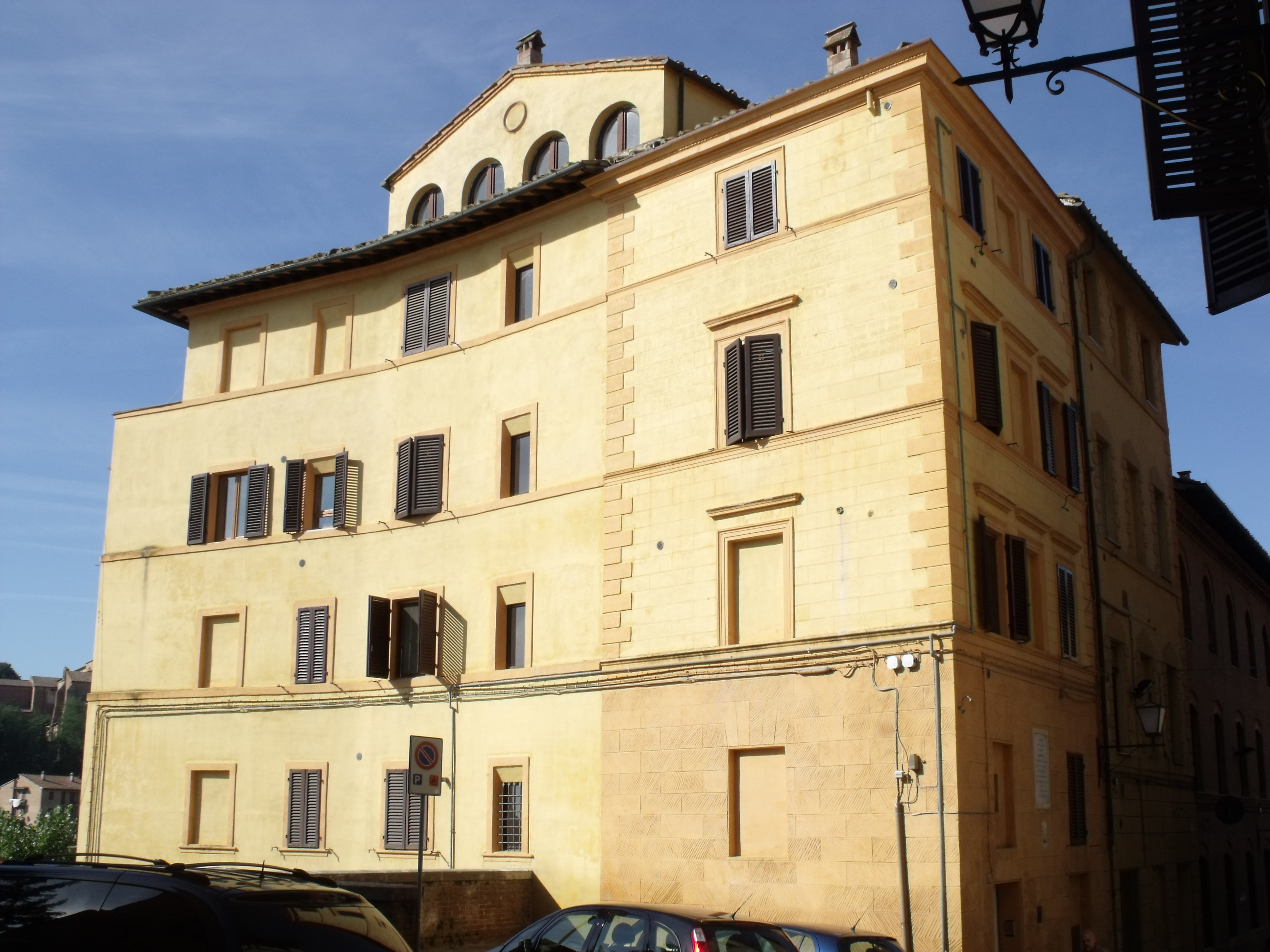 House of birth of Giuseppe Partini, Via Salicotto, Siena